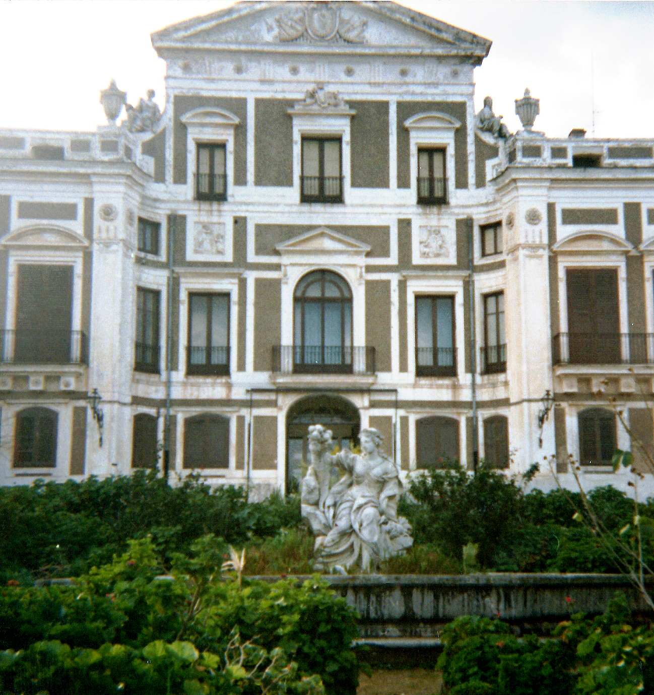 Villa Gravina di Comitini, later Lanza di Trabia in Bagheria (Pa): an impressive example of Neoclassical architecture in Sicily. It was built in the second half of the XVIII century. Between 1796 and 1797 painter Elia Interguglielmi decorated the main rooms with frescoes inspired to the Greek-Roman Antiquity.